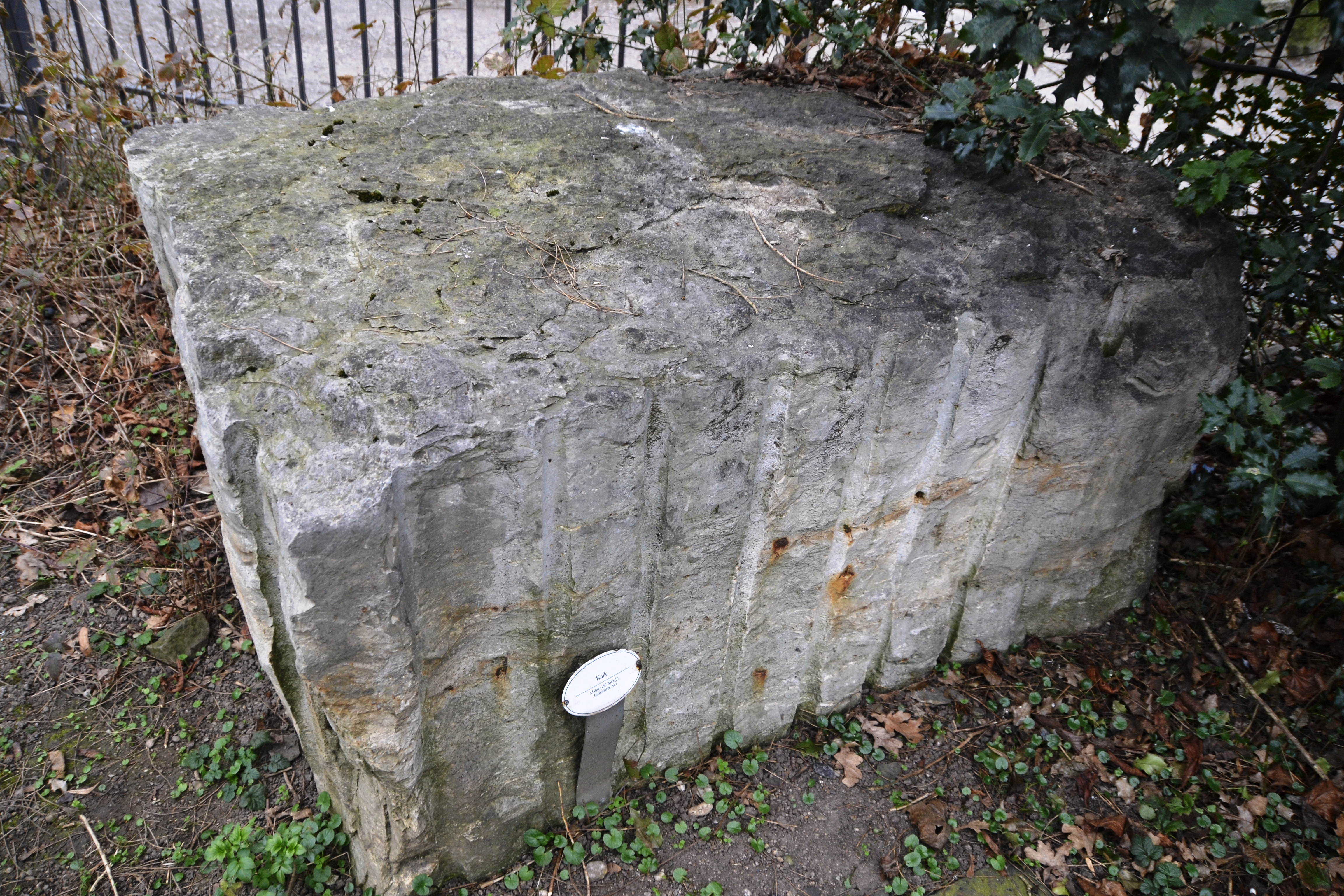 The geological public collection at the Alpines Museum in Munich.